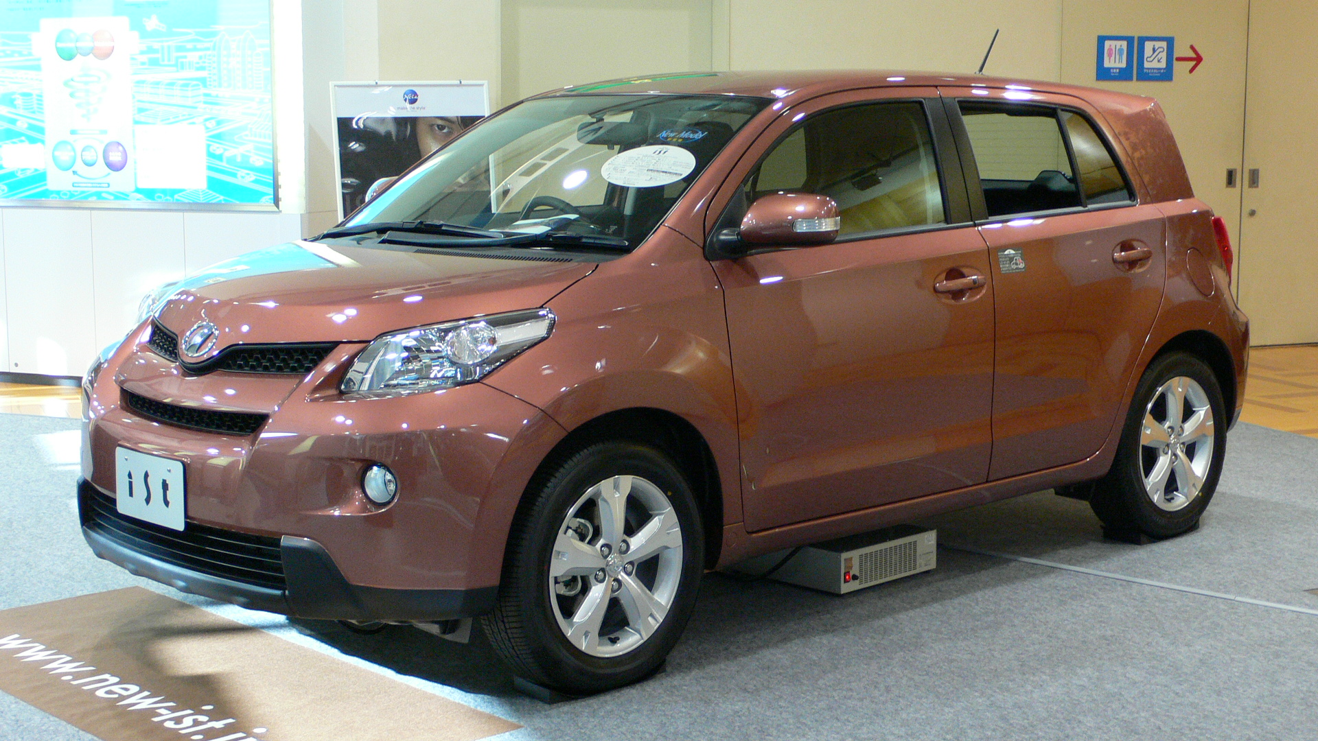 2nd-generation Toyota ist (Scion xD) (2007 - ) photographed in the showroom of Toyota (AMLUX)